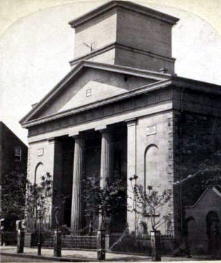 St. Joseph's Church in the Village. N. Washington Place, NYC (c. 1860) from Robert N. Dennis collection of stereoscopic views. / United States. / States / New York / New York City / Stereoscopic views of churches and religious organizations in New York City